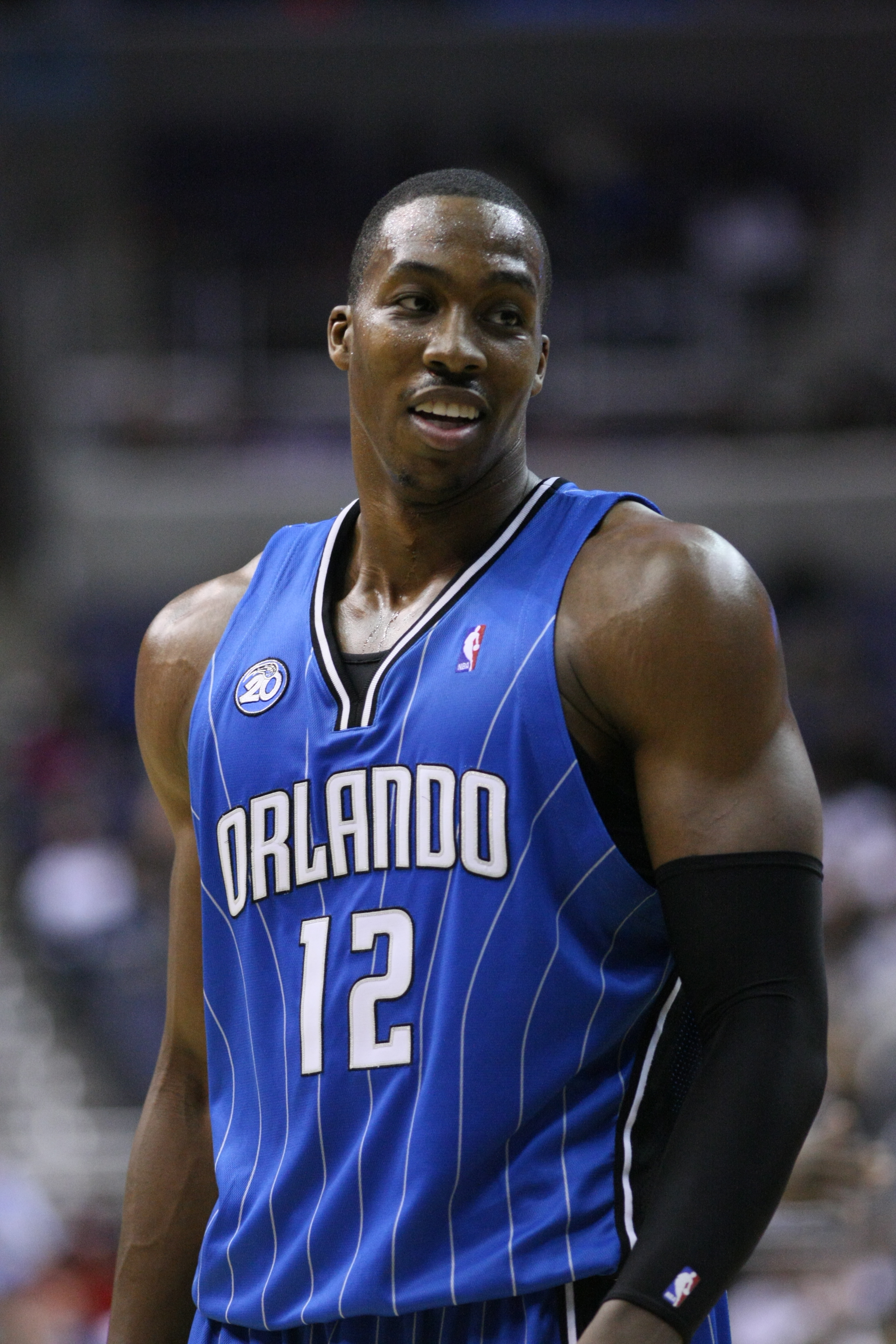 Dwight Howard, Orlando Magic, 2008–09